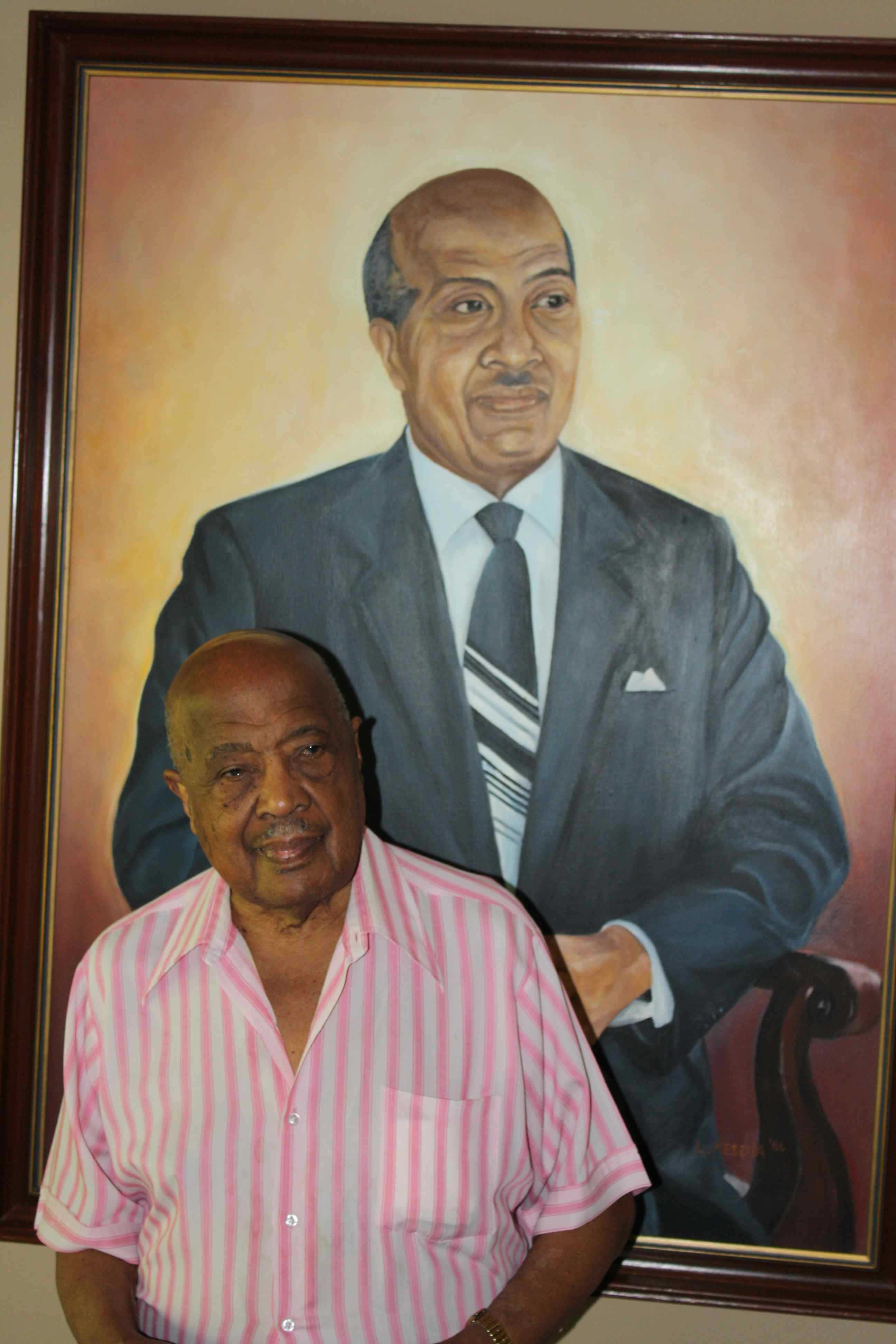 Sir Ellis Emmanuel Innocent Clarke last Governor-General and first President of Trinidad & Tobago at his private residence in Fairways, Maraval, Trinidad